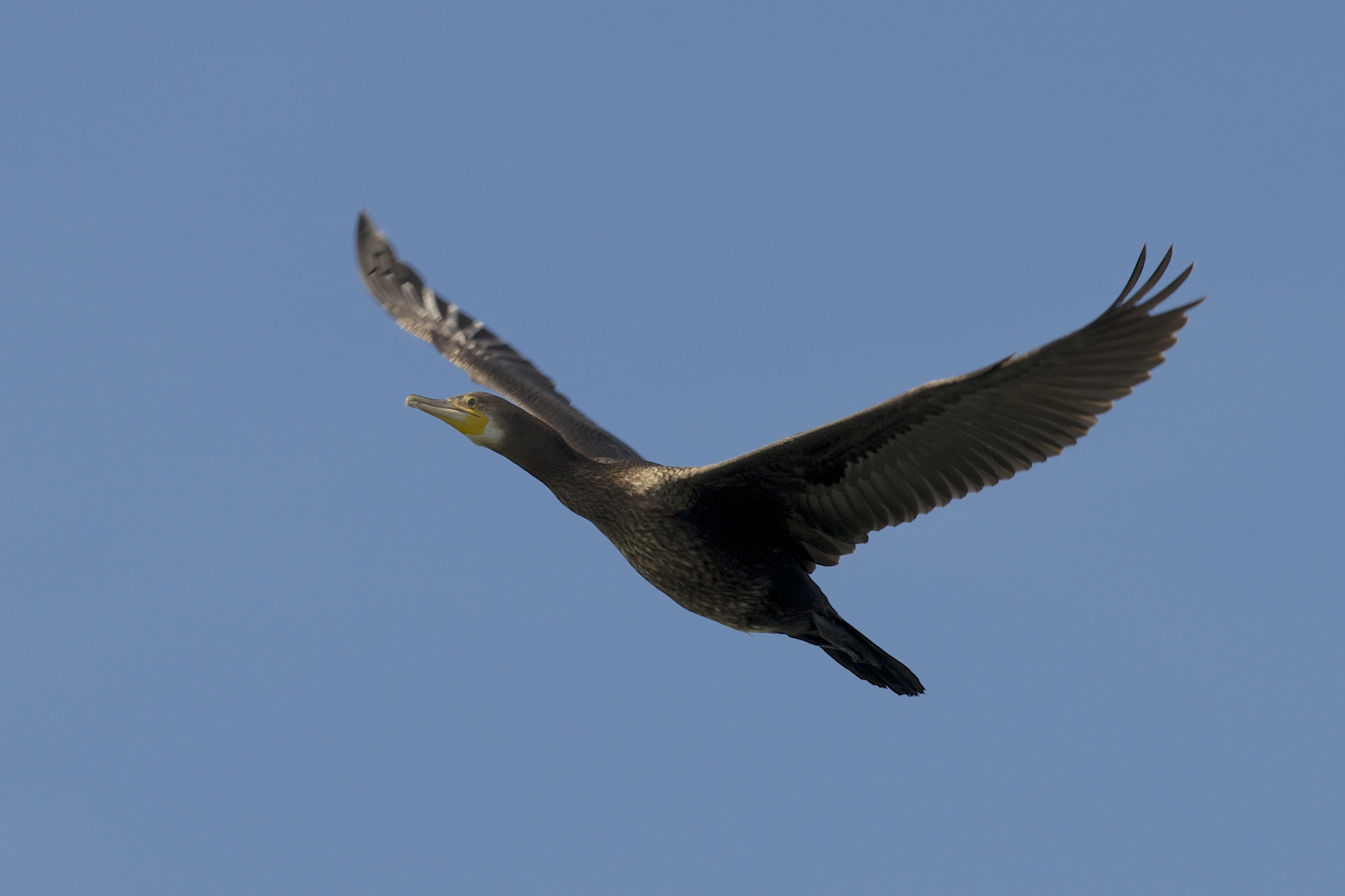 Bird, near La Sauge (Switzerland).